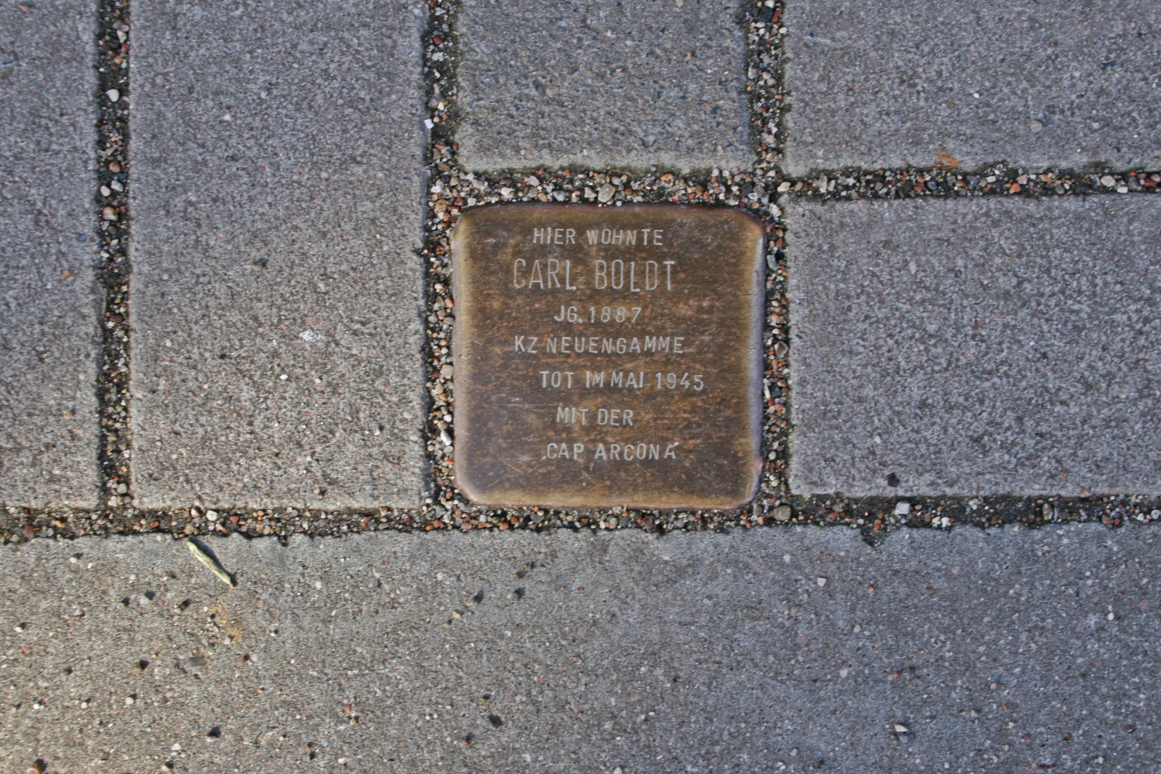 Stolperstein for Carl Boldt in Hamburg-Bergedorf, Soltaustraße 12